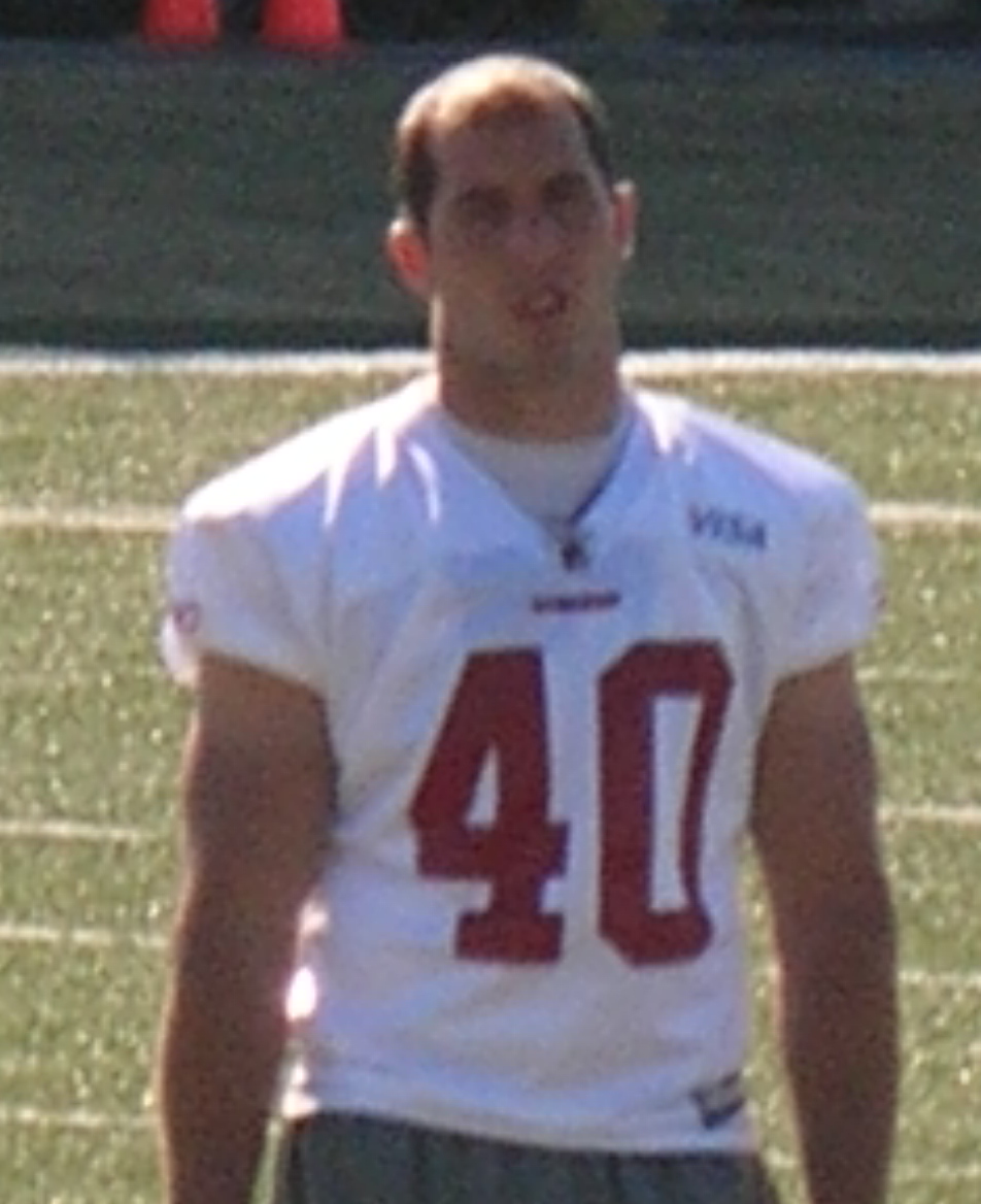 San Francisco 49ers safety Chris Maragos at training camp in Santa Clara, California.